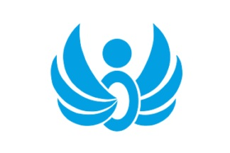 Flag of Ukiha Fukuoka